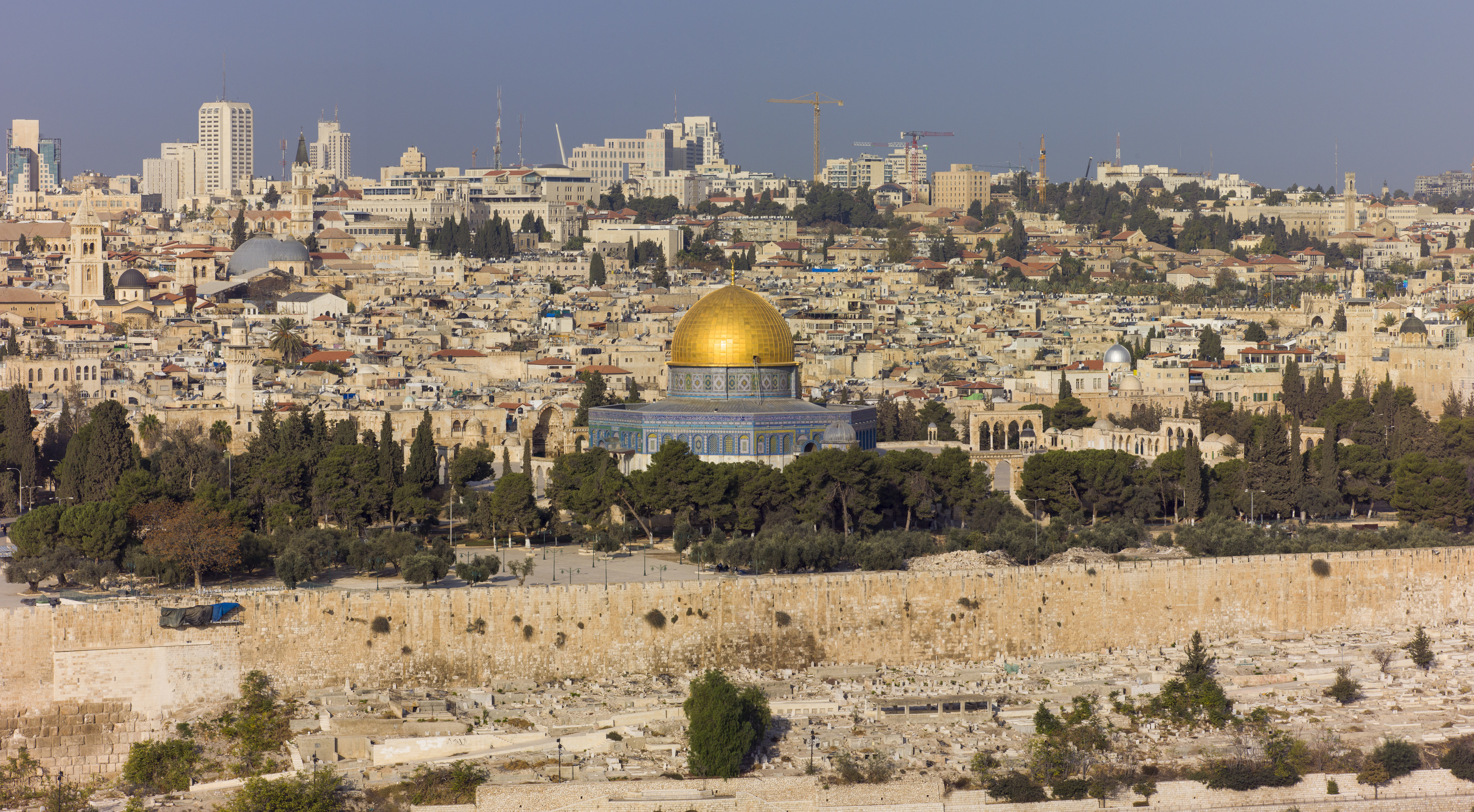 The Dome of the Rock (Arabic: مسجد قبة الصخرة, Hebrew: כיפת הסלע) on the Temple Mount, (Hebrew: הַר הַבַּיִת, Arabic: الحرم القدسي الشريف) in the Old City of Jerusalem ((Hebrew: העיר העתיקה, Arabic: البلدة القديمة) as seen from the Mount of Olives.